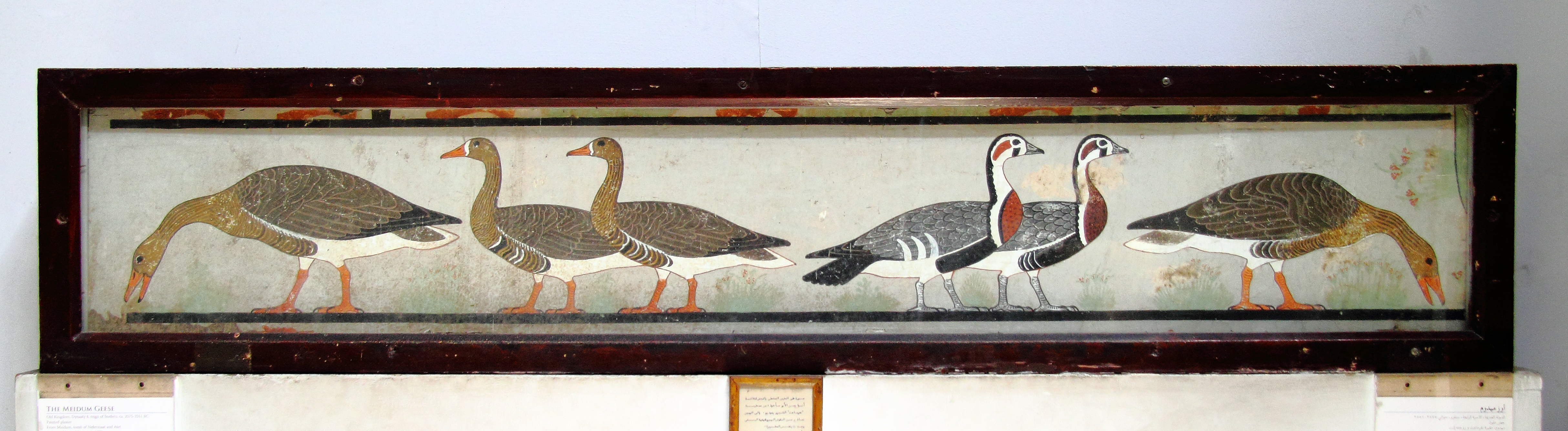 Egyptian Museum, Cairo: “Meidum Geese”, wall painting from the tomb of Nefermaat, 4th Dynasty, Old Kingdom of Egypt